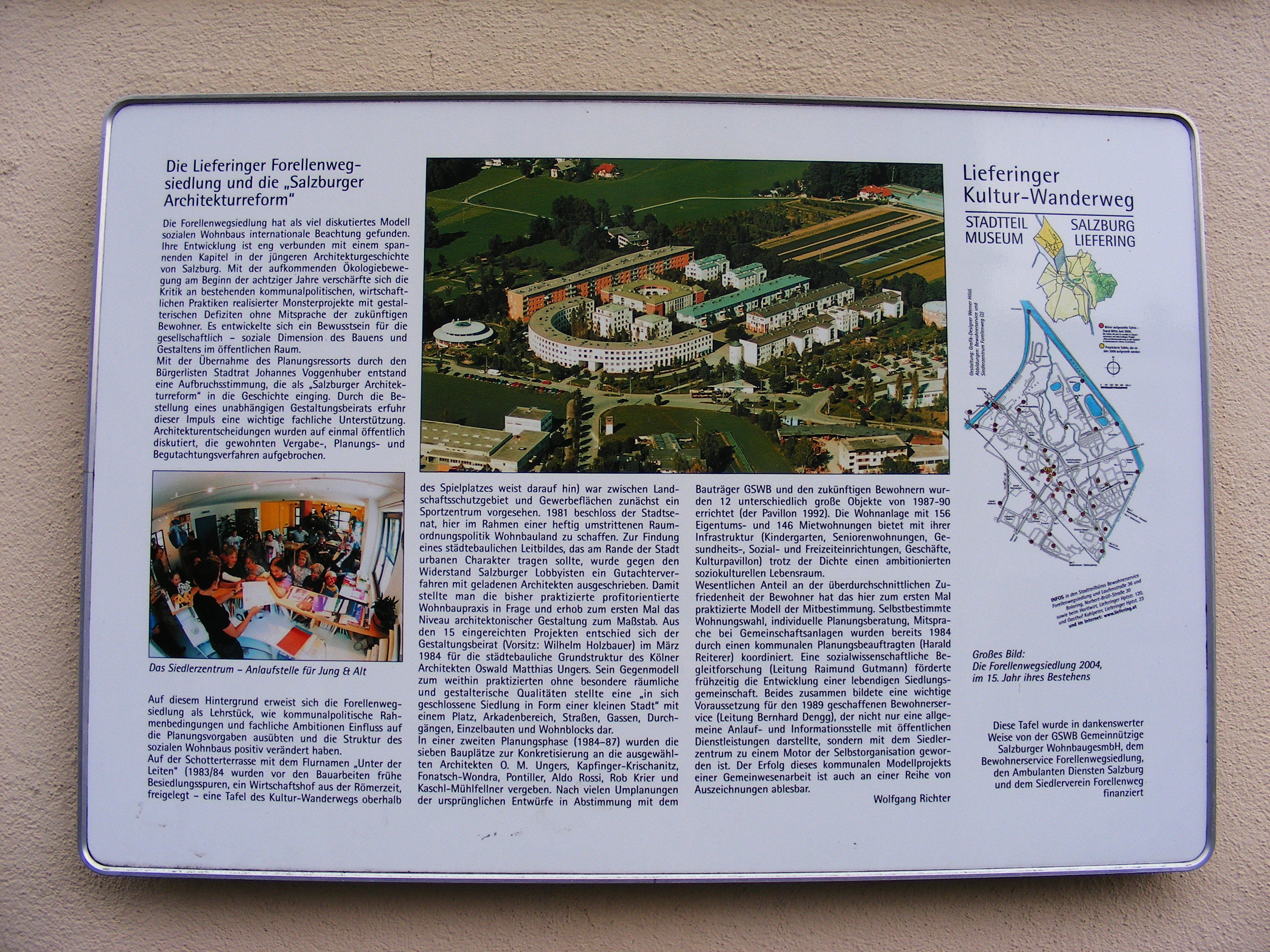 wall chart of council settlement "Forellenweg", city of Salzburg, Austria